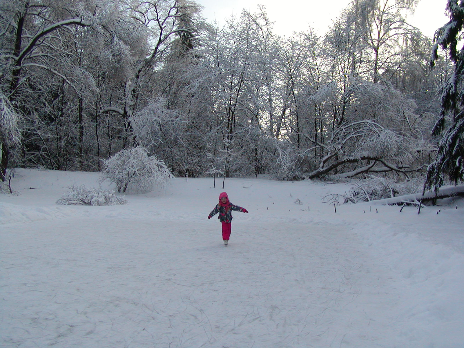 Ababurovo's pond in winter.